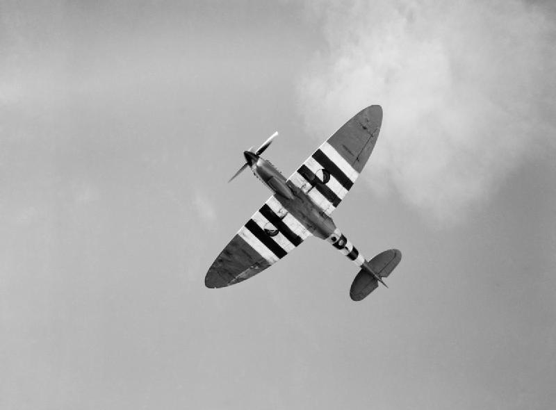 A Royal Air Force Supermarine Spitfire PR Mark XI (s/n PL775 "A") of No. 541 Squadron RAF based at Benson, Oxfordshire (UK), flys over the photographer's aircraft, showing the 'split-pair' camera ports under the fuselage, aft of the wing roots.